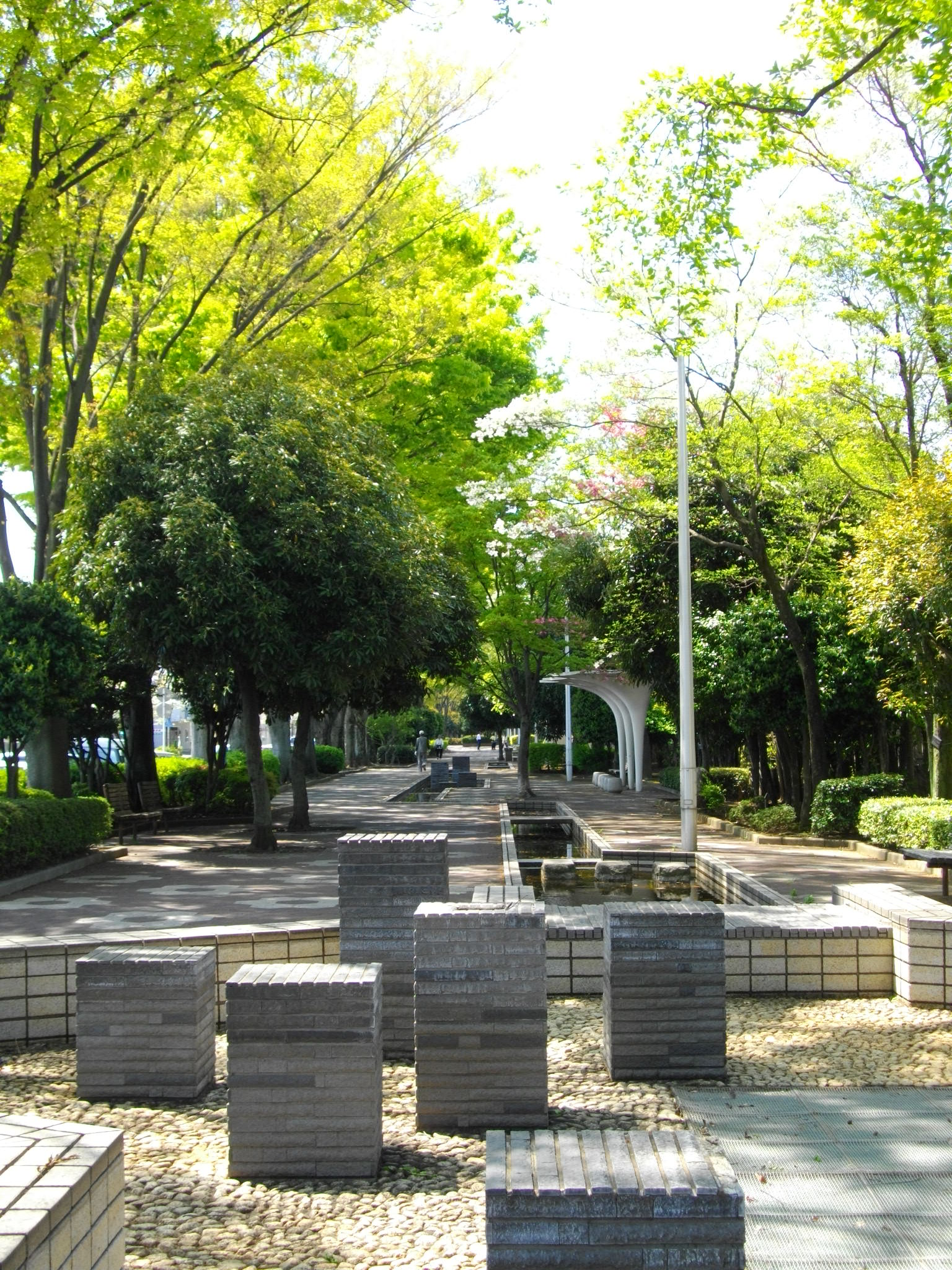 Izumi Green Path in Oizumi